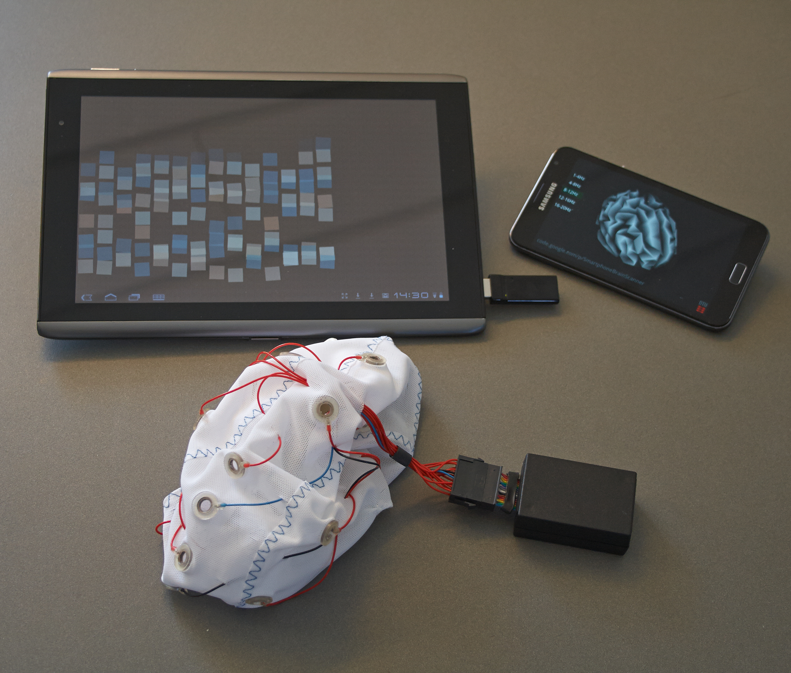 Smartphone Brain Scanner applications running on Android devices. Neurofeedback training and real-time 3D source reconstruction running on Android mobile devices via a wireless connection to an Emotiv or Easycap EEG systems.